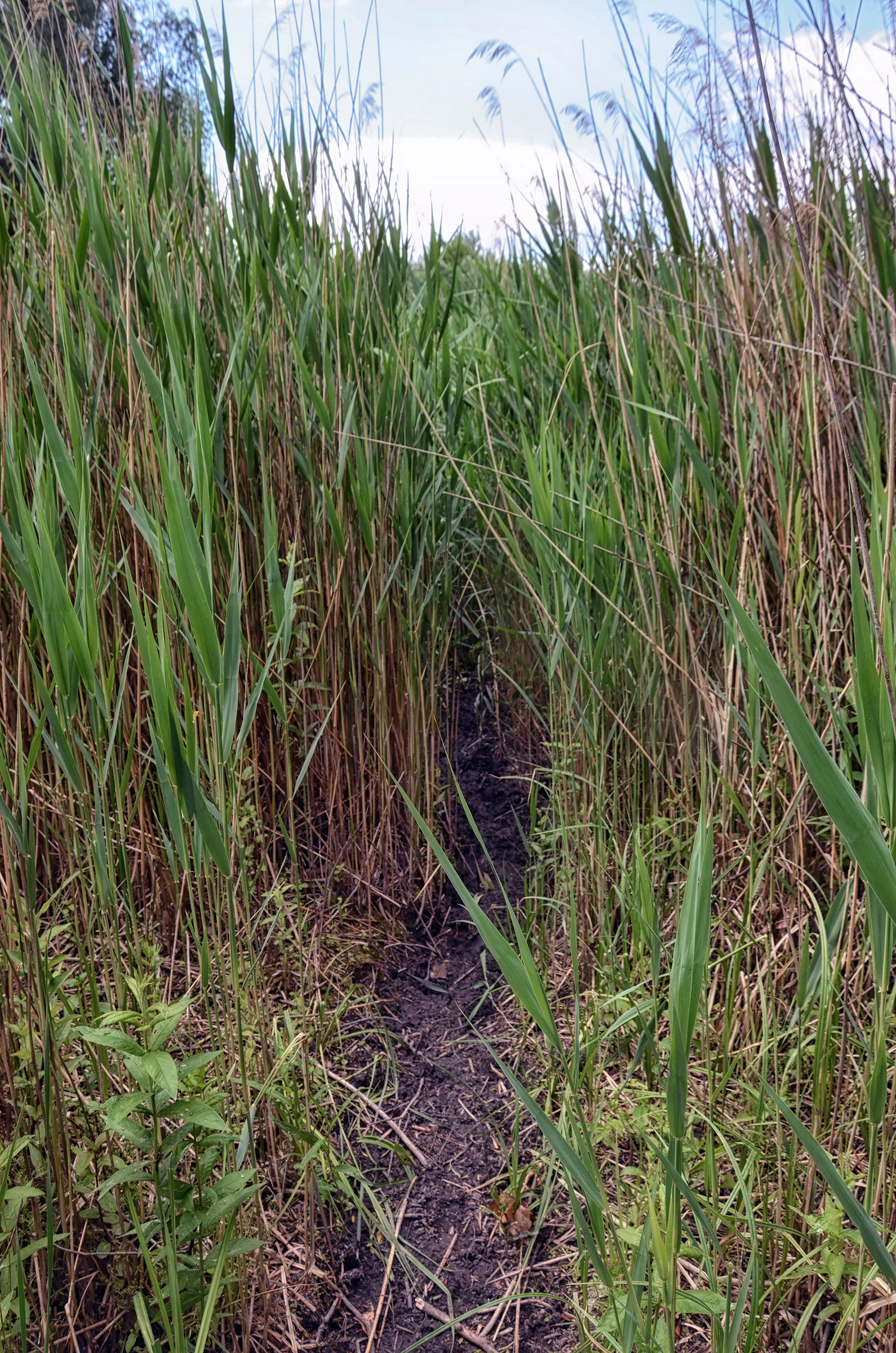 The lowland of the Dead Rábca, called Dobsa, by Abda